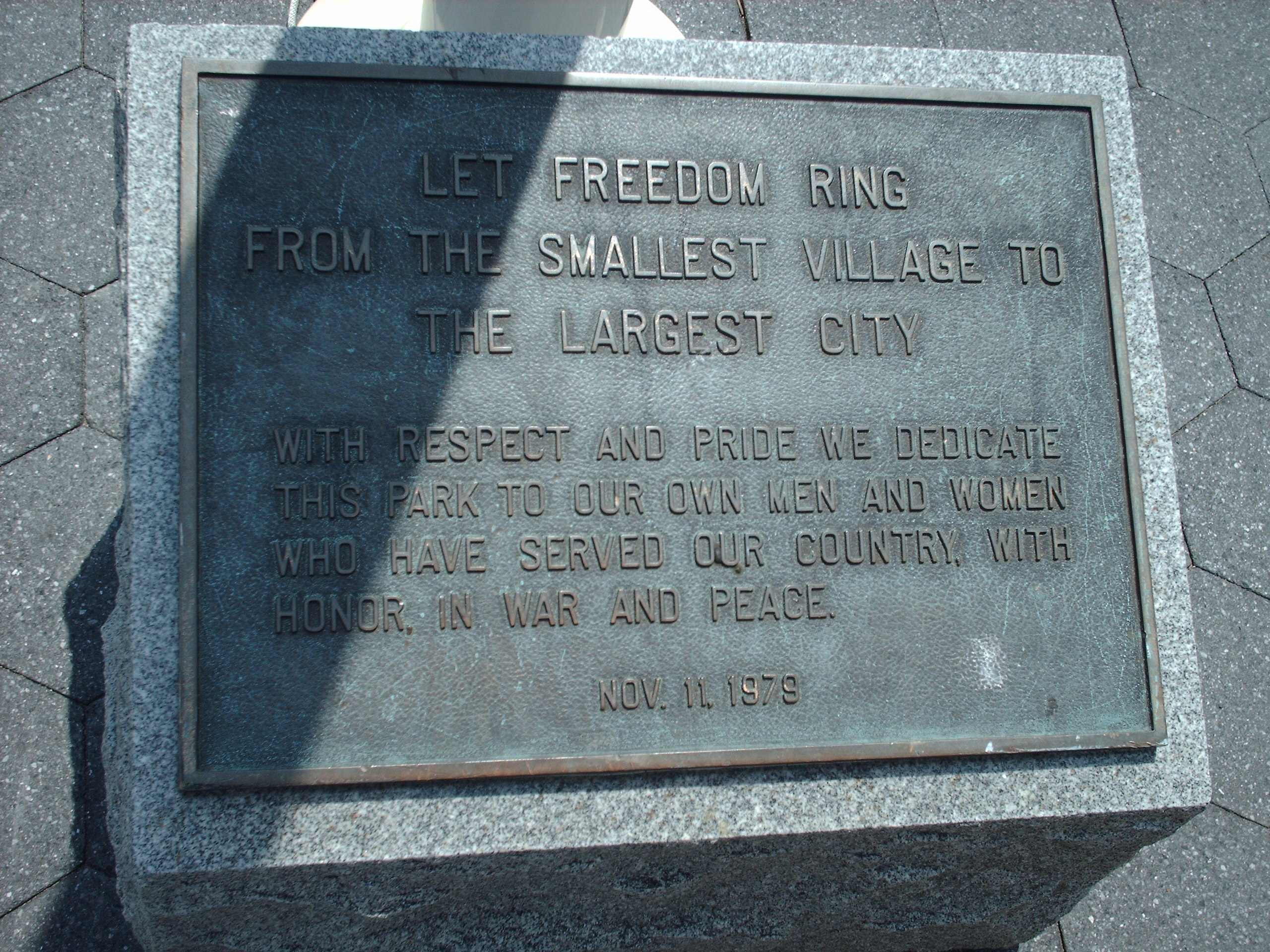 Nyack, New York war memorial.